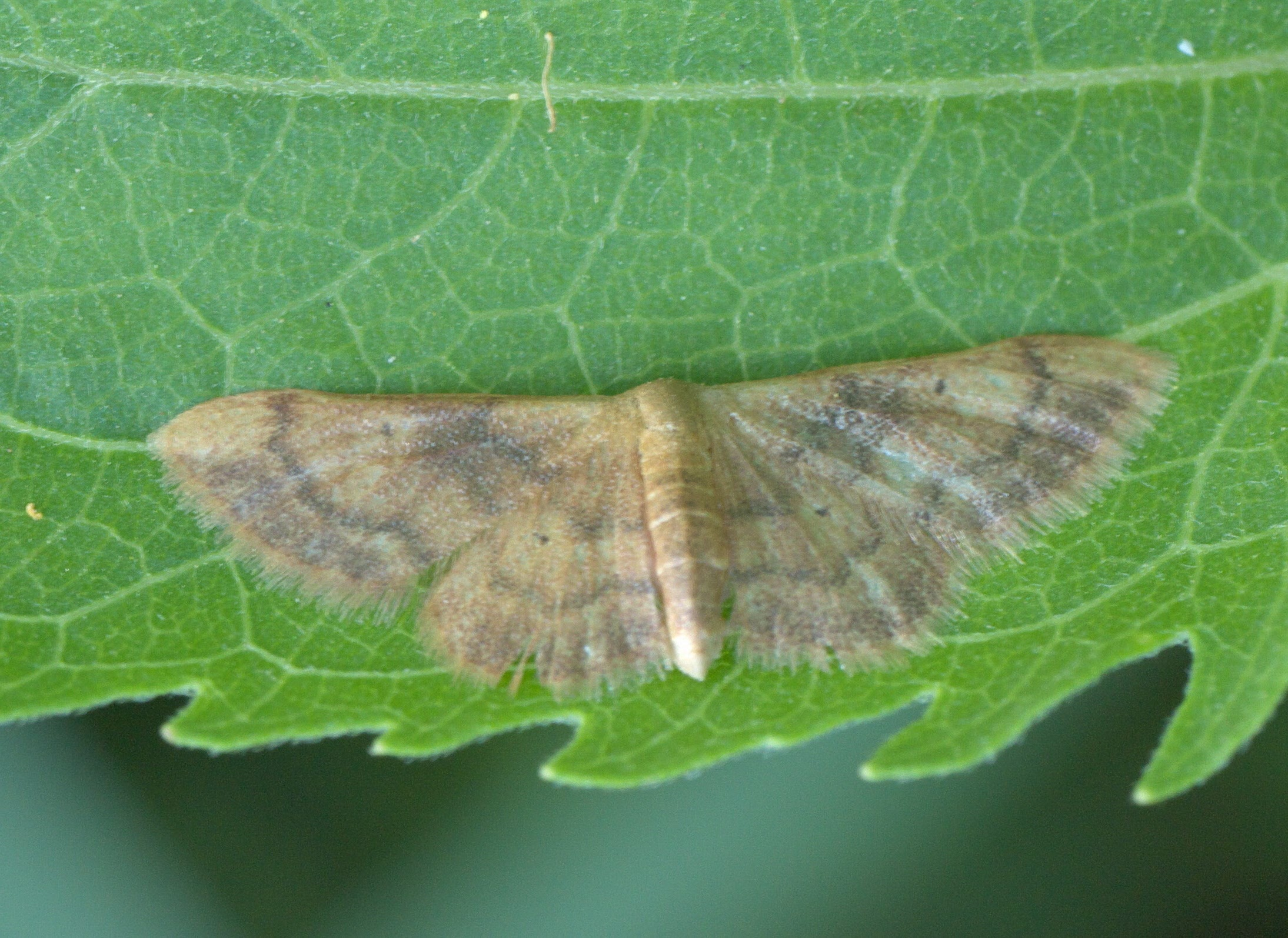 Idaea demissaria, Red-Bordered Wave Moth - Hodges #7114, Size: 5 mm (body), ID Confidence: 88